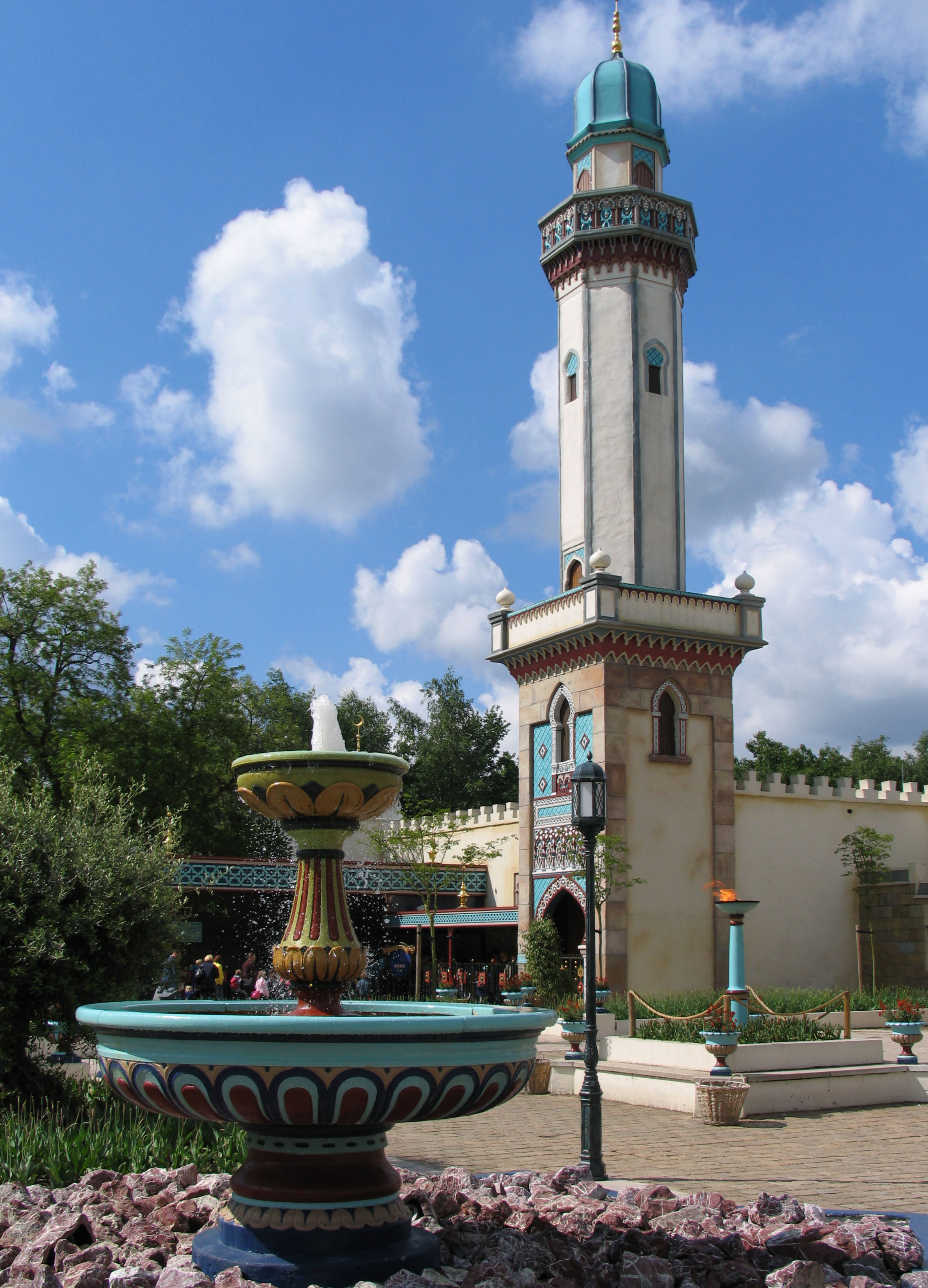 Darkride "Fata Morgana" in Efteling, Netherlands